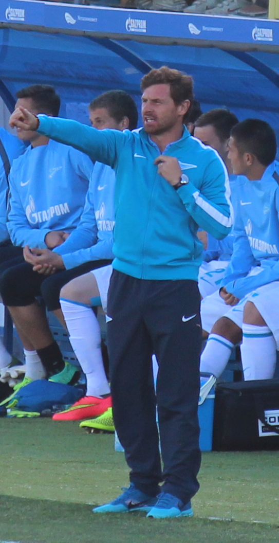 André Villas-Boas coaching FC Zenit St. Petersburg during a pre-season friendly match against Club Brugge at Petrovsky Stadium in 2014.